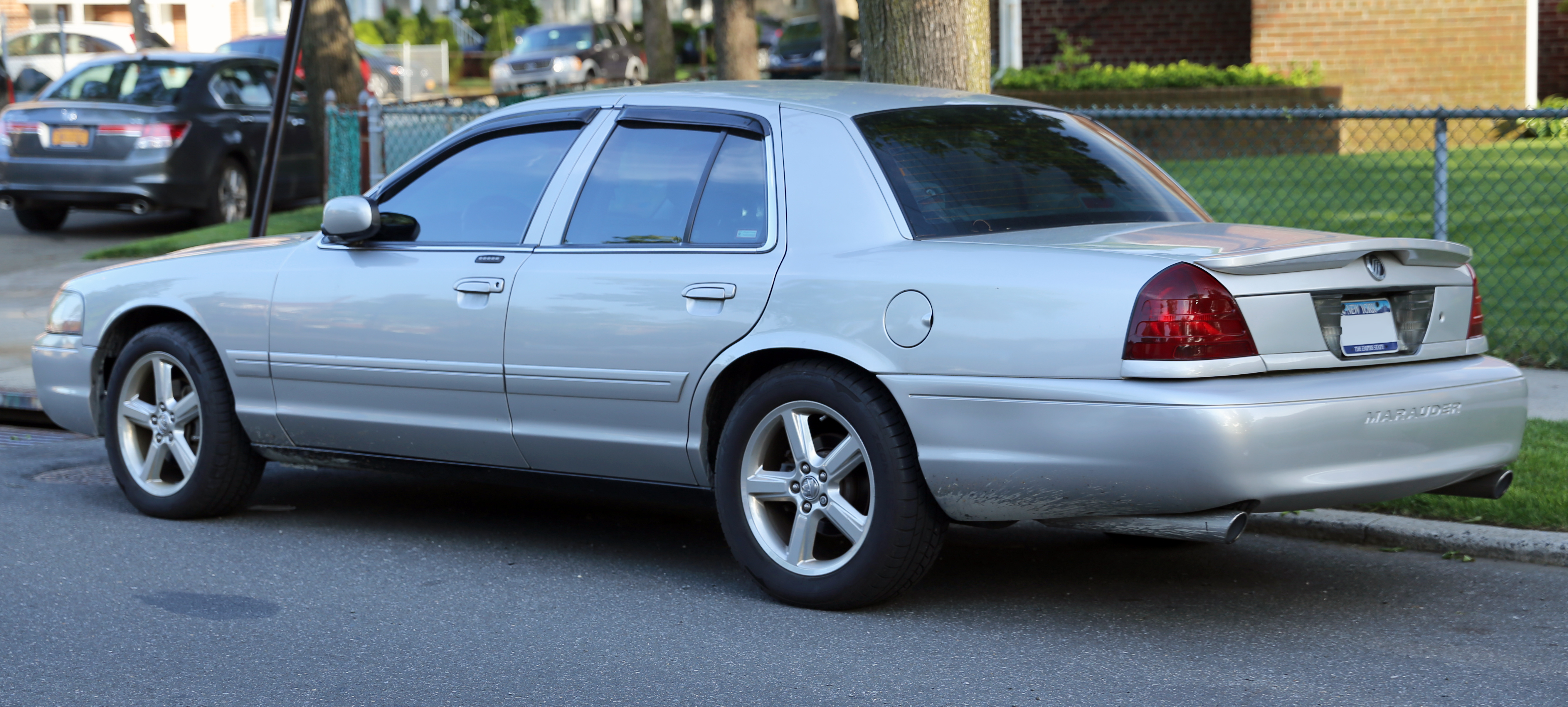 Rear left 3/4 view of a 2004 Mercury Marauder in "Silver Birch". Only 997 were built in this color in 2004.